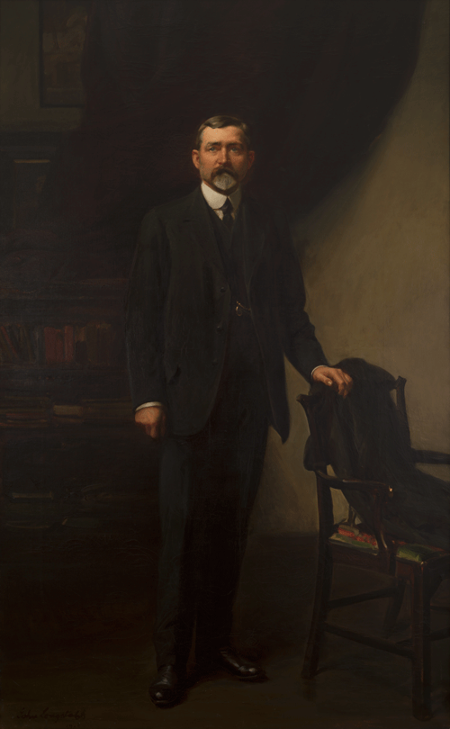 The Hon. John Christian Watson, Prime Minister of Australia (1904).